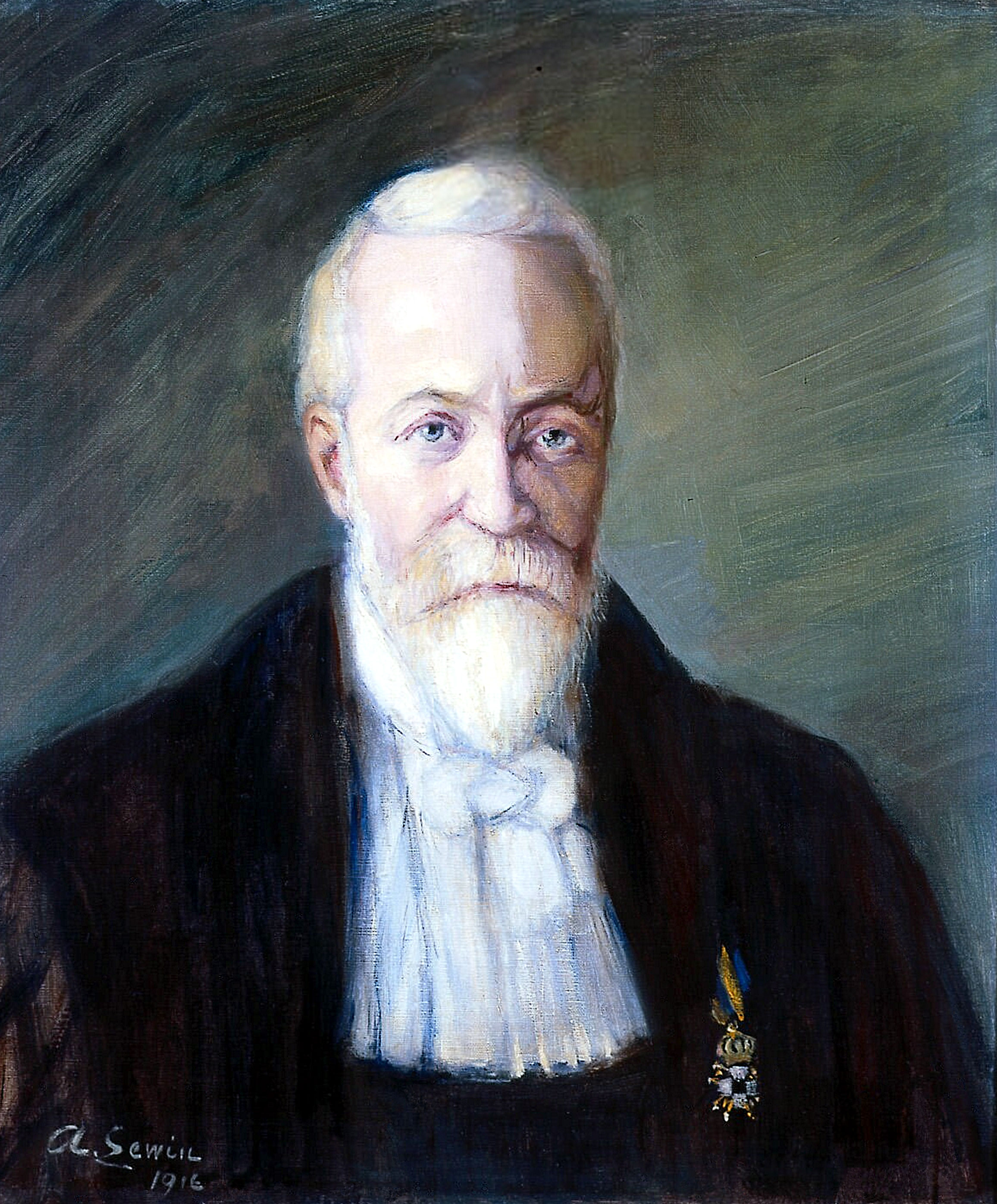 Portrait of Willem Julius (1860-1925) by mrs. Antonie Lewin (1858-1938). Painted in 1916. Collection Universiteitsmuseum Utrecht (the Netherlands)